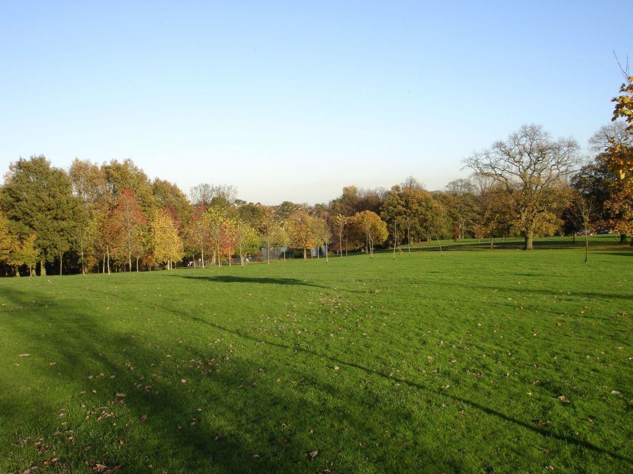 Author: SPicke01. Picture taken in 2005 of Acton Park, Wrexham.